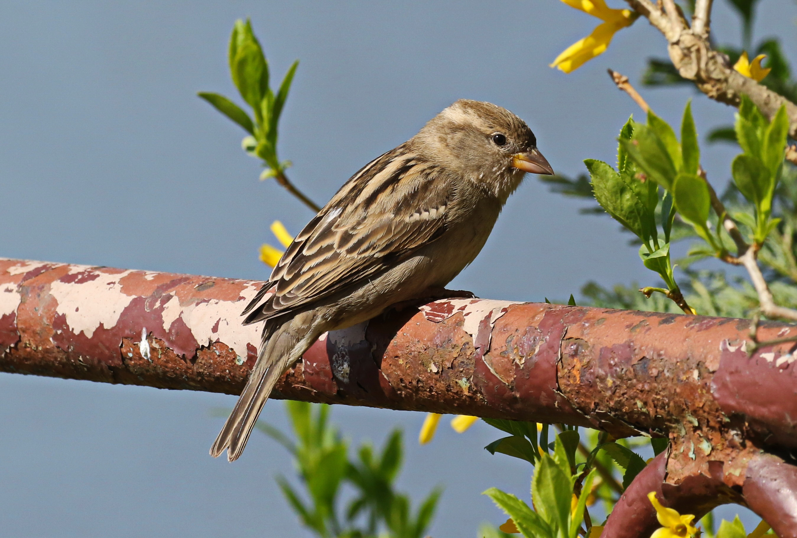 House sparrow (Passer domesticus) at the pond Schwanenteich in Waldenburg, Saxony, Germany (landscape reserve Mulden- und Chemnitztal).